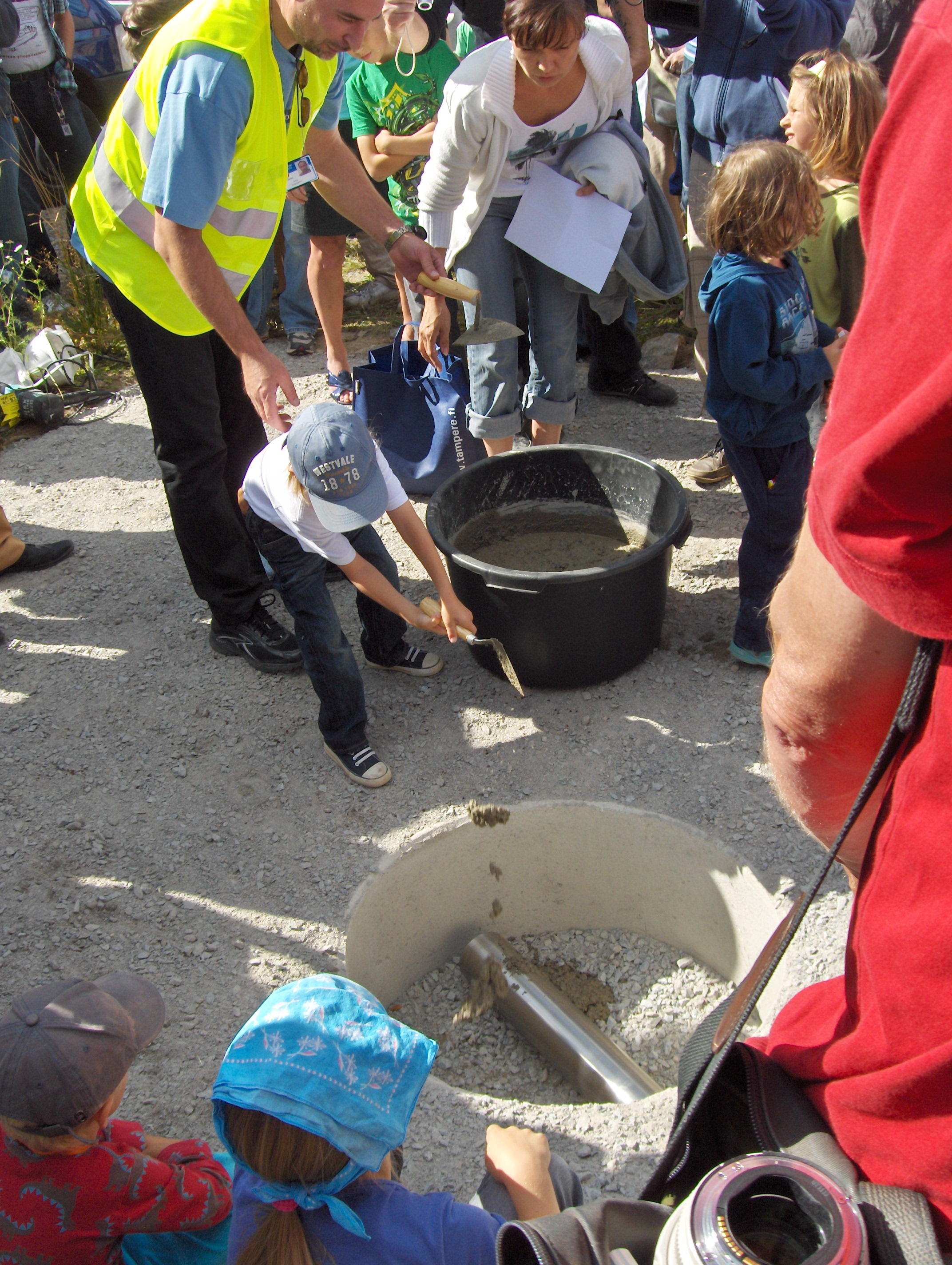 The foundation stone of the current and future residents of Vuores (suburb of Tampere, under construction) was laid. The pictured child was the second person — right after Deputy Mayor Timo Hanhilahti — to throw concrete on the time capsule.